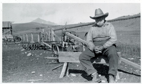 AF Crail founded Crail Ranch in the Gallatin Basin, Gallatin County Montana about 1902. Shown here with farm equipment and Lone Peak in background.